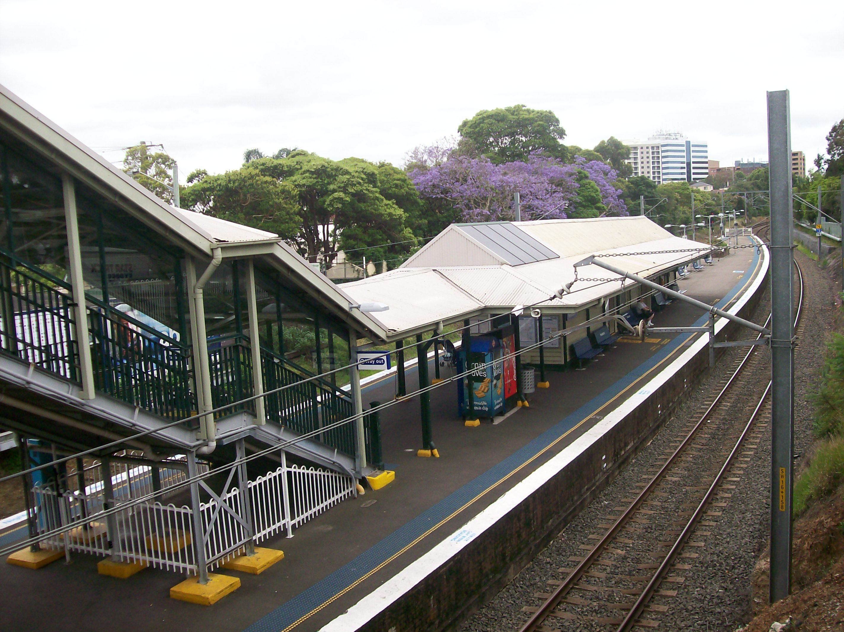 Penshurst railway station